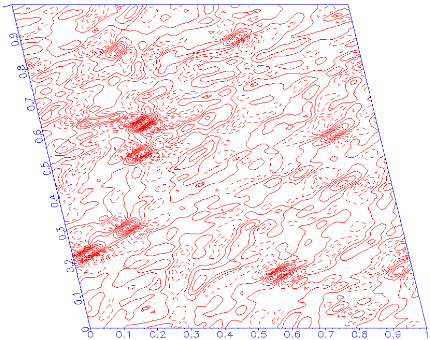 Example of a difference Fourier map, Fobs-Fcalc, calculated after finding the position of the heavy atom in the structure. The remaining peaks allow the determination of the other atoms. Map calculated with the WinGX program suite from the data published in Acta Cryst. B 66 (2010) 503-514 ([Rh(C7H8)(PtBu3)Cl]).